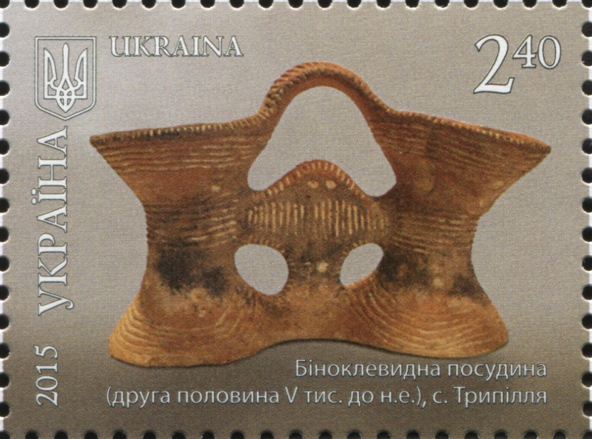 Stamps of Ukraine, 2015